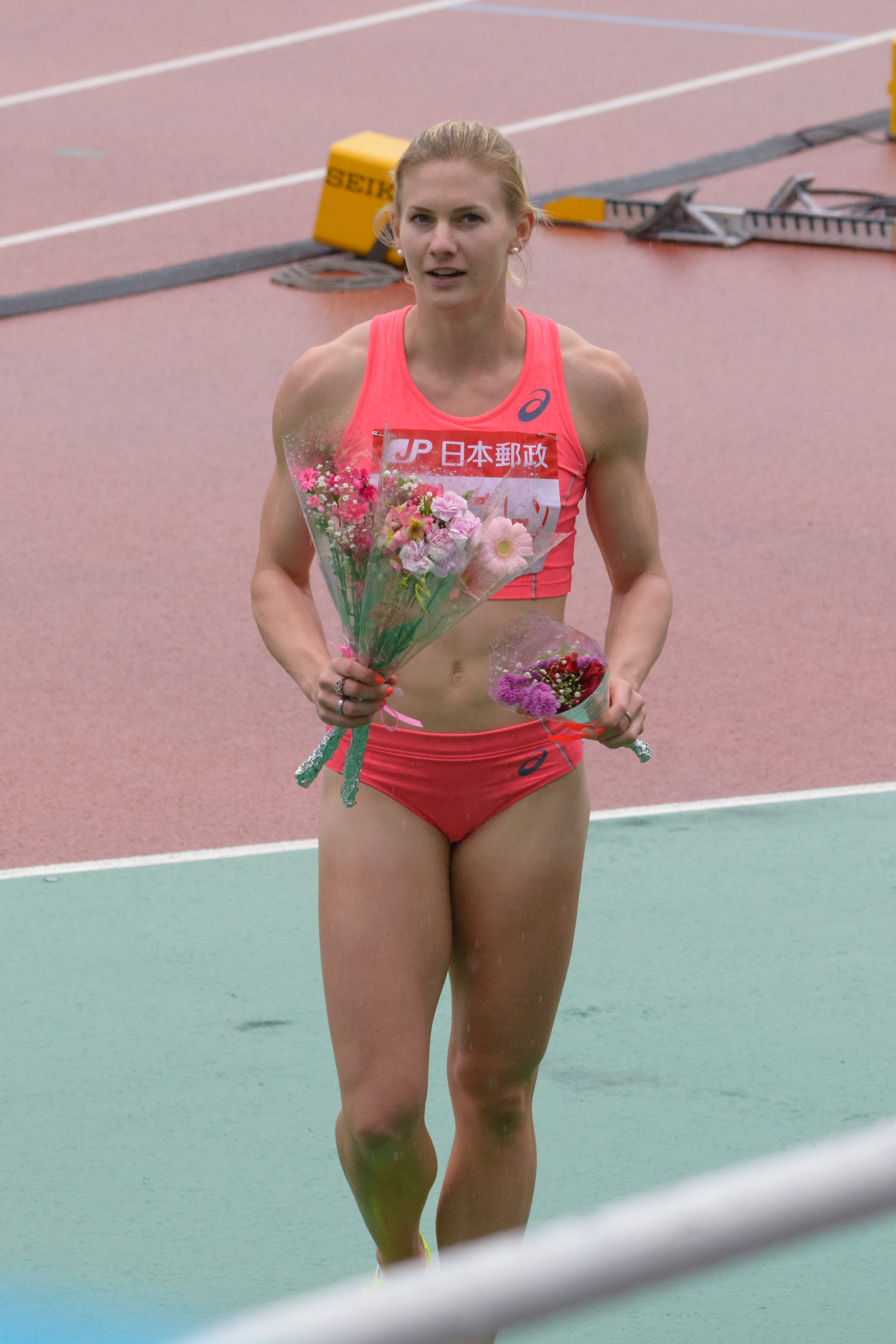 Melissa Breen winning the race at the 2015 Mikio Oda Memorial Game